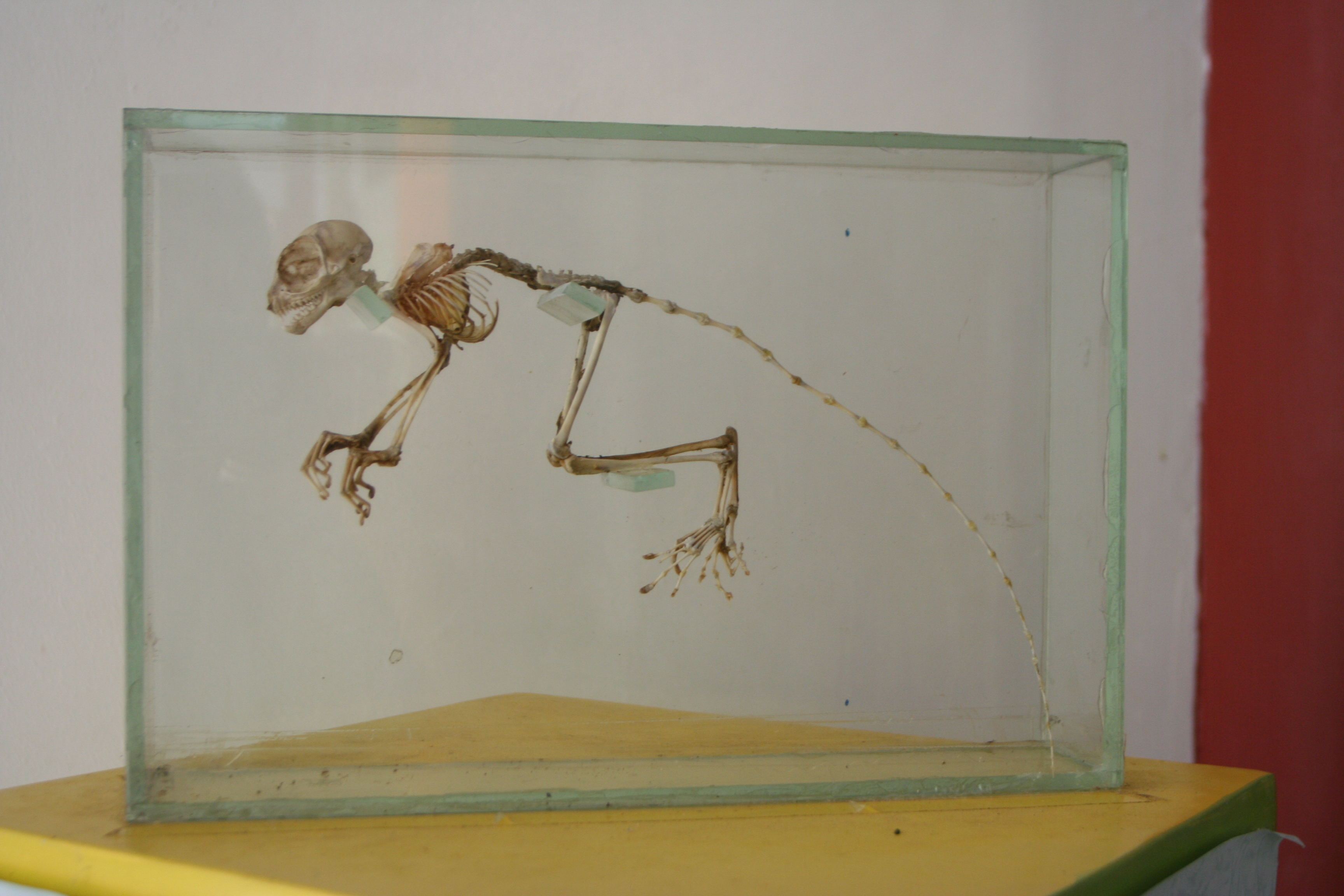 Skeleton of a Philippine Tarsier, as displayed at the Philippine Tarsier Sanctuary, Corella, Bohol, The Philippines.